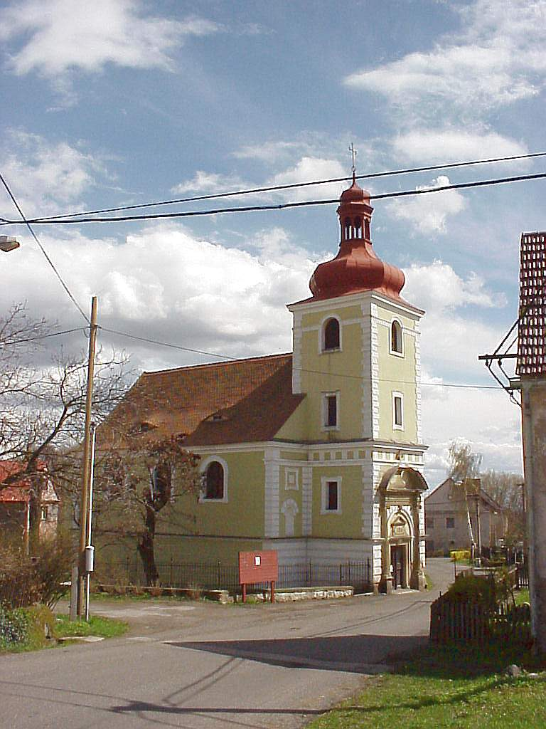 Church of SS Simon and Jude from late 17th century in Stebno, Ústí nad Labem District, Czech Republic